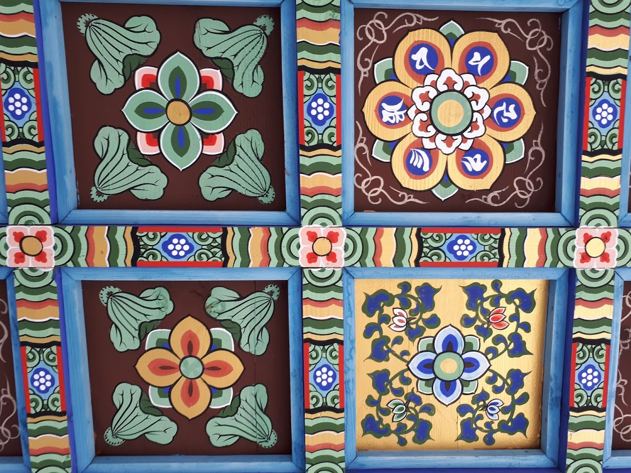 Ceiling Bongeunsa Temple